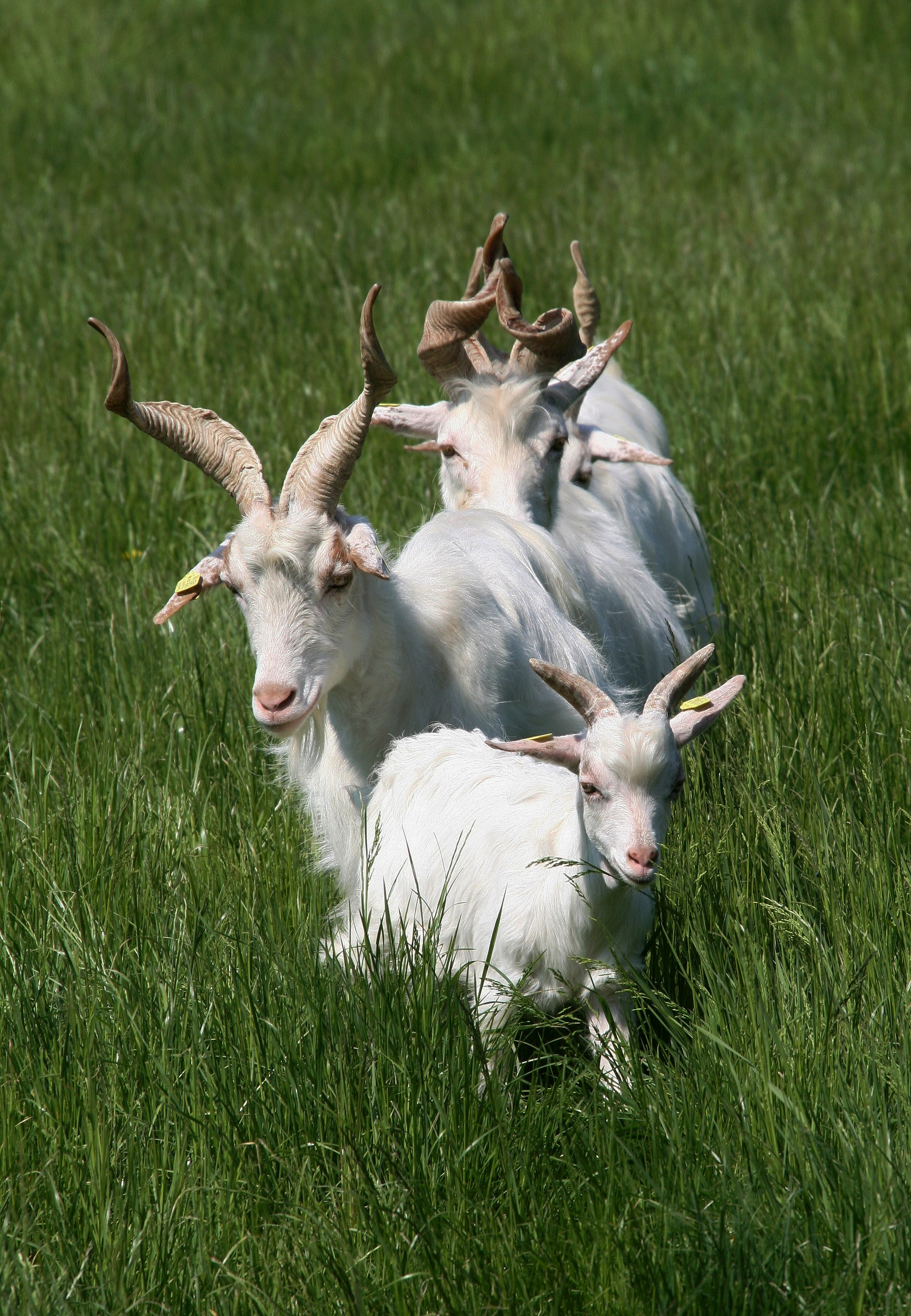 The Girgentana goat originates from the Italian province of Agrigento (Sicily). The city of Agrigento Girgenti was until 1929, after her goats, this race named.